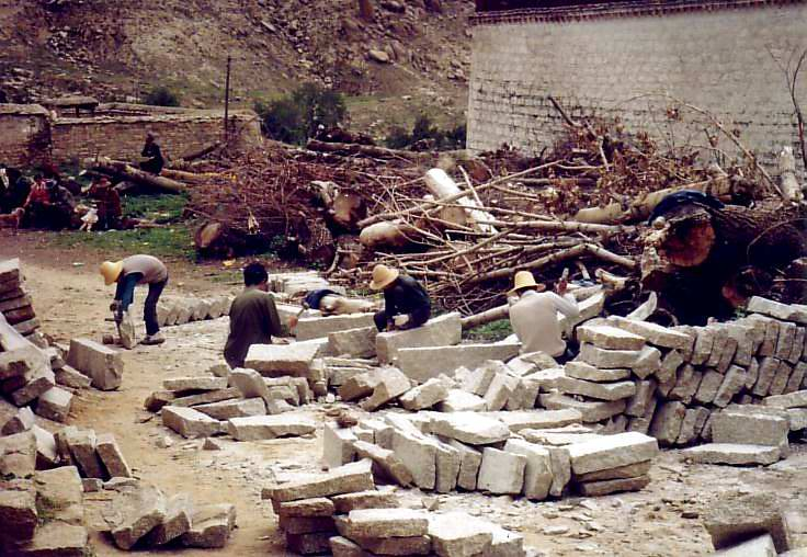 I took this photo myself in 1993. John Hill 03:16, 29 January 2007 (UTC)